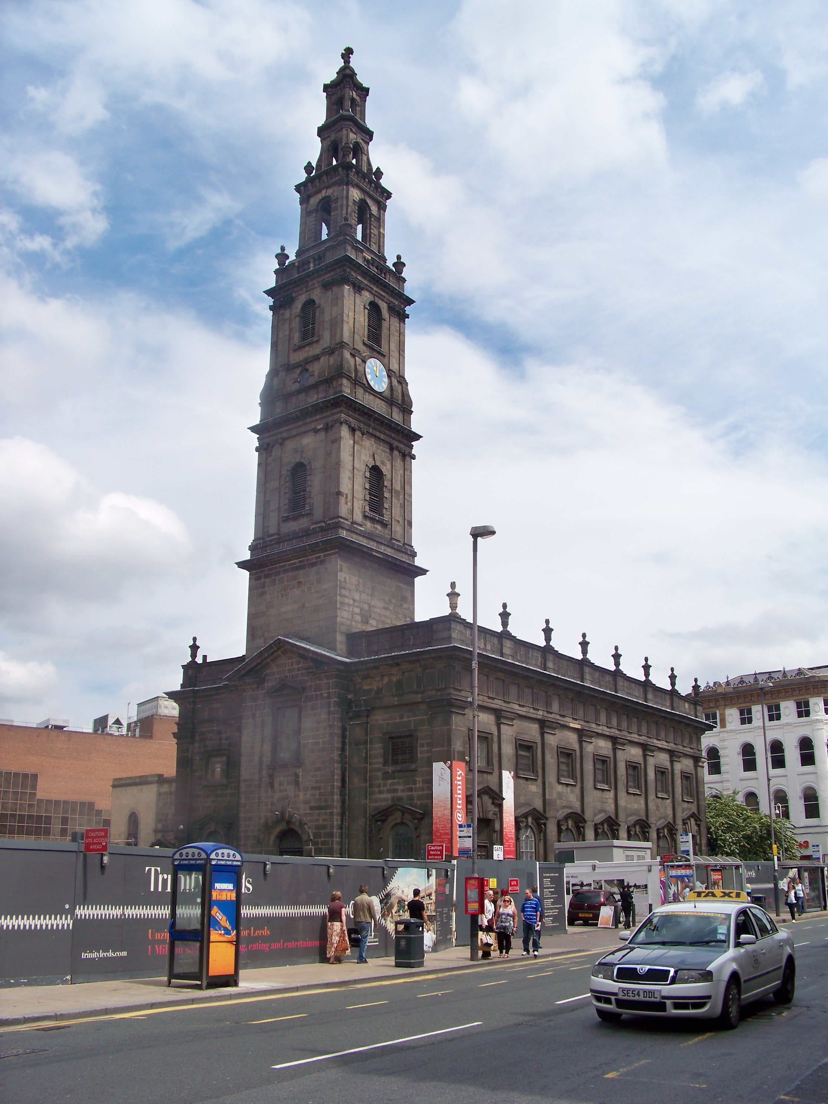 The Holy Trinity Church on Boar Lane in Leeds, West Yorkshire. Taken on the afternoon of Thursday the 24th of June 2010.